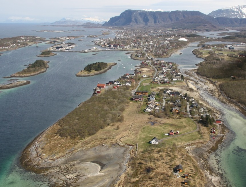 Laukholmen, Brønnøysund, Norway